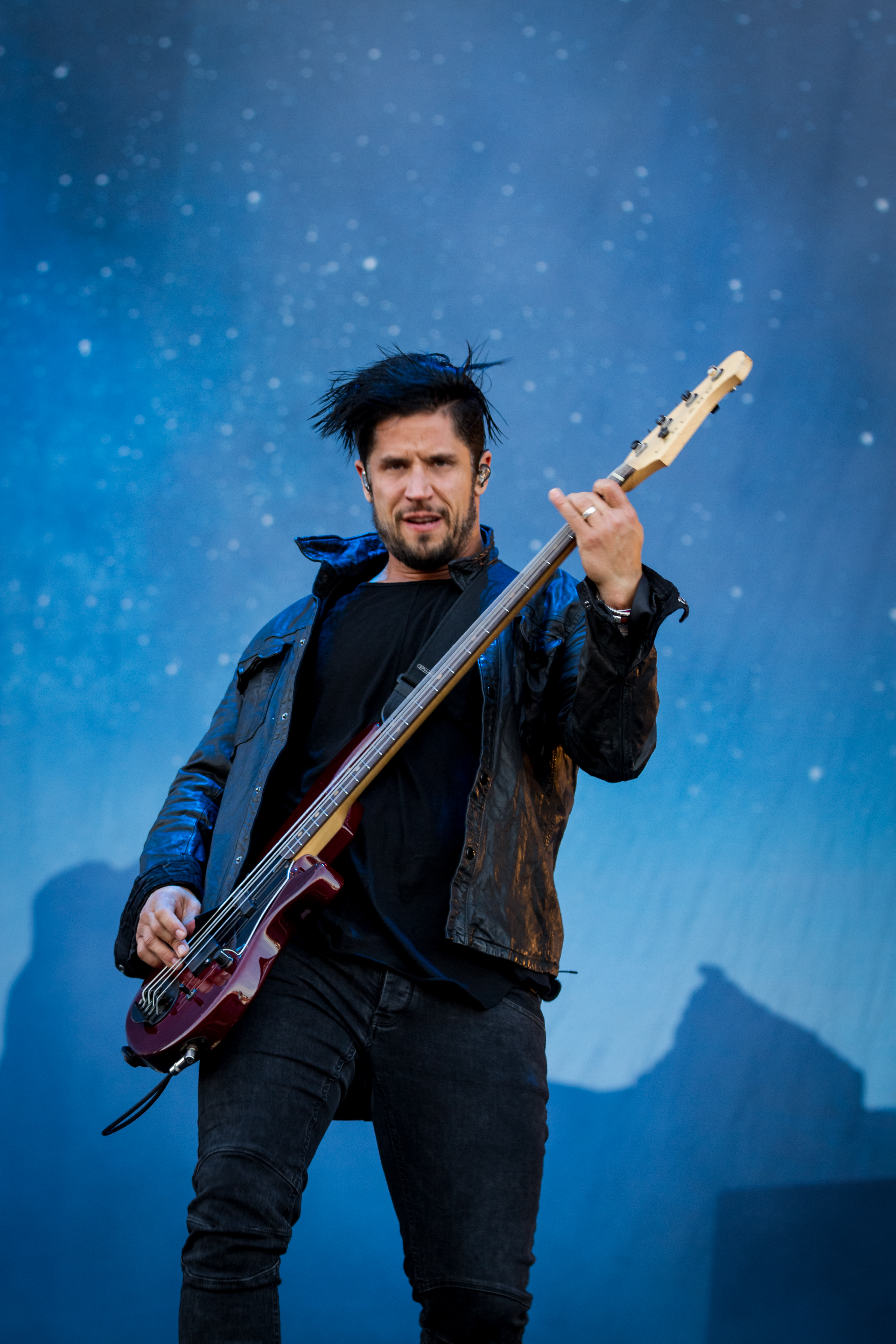 Papa Roach - Rock am Ring 2015